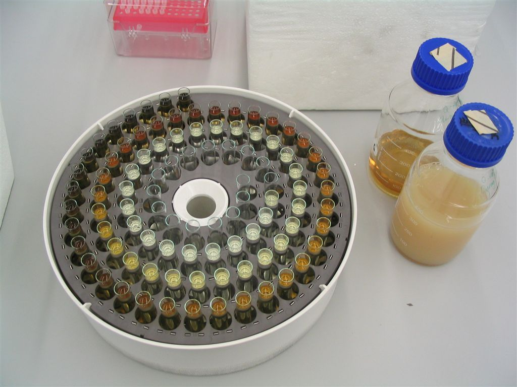 Fraction Collector Tube Rack - IMG_0851